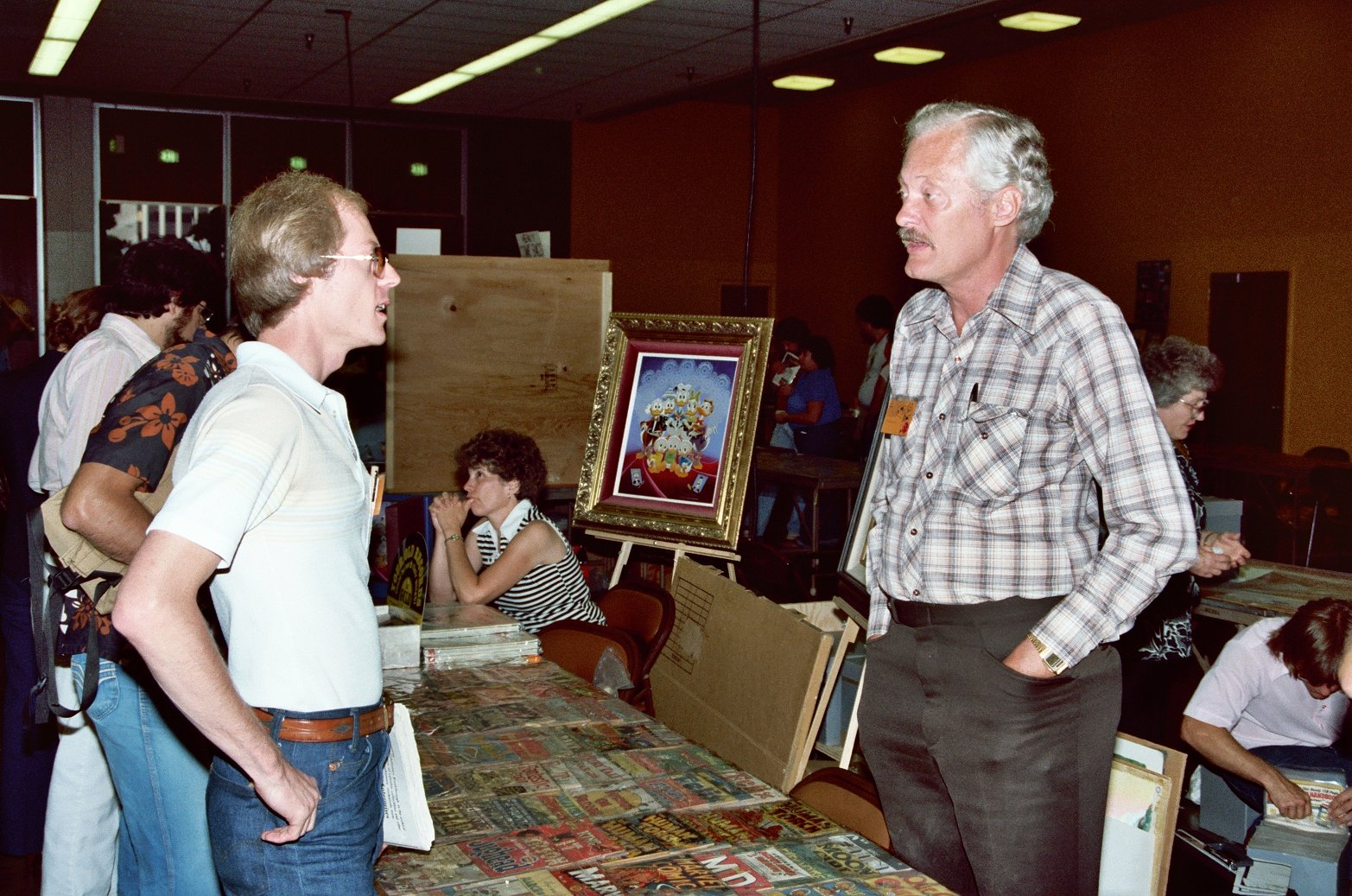 1982 San Diego Comic-Con International. Scanned from the original 35MM film negative. NOTE: Permission granted to copy, publish, broadcast or post any of my photos, but please credit "photo by Alan Light" if you can. Thanks.